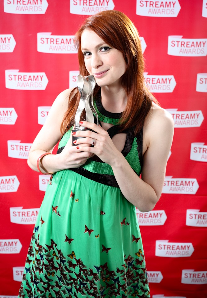 Felicia Day at the 1st Streamy Awards in 2009.